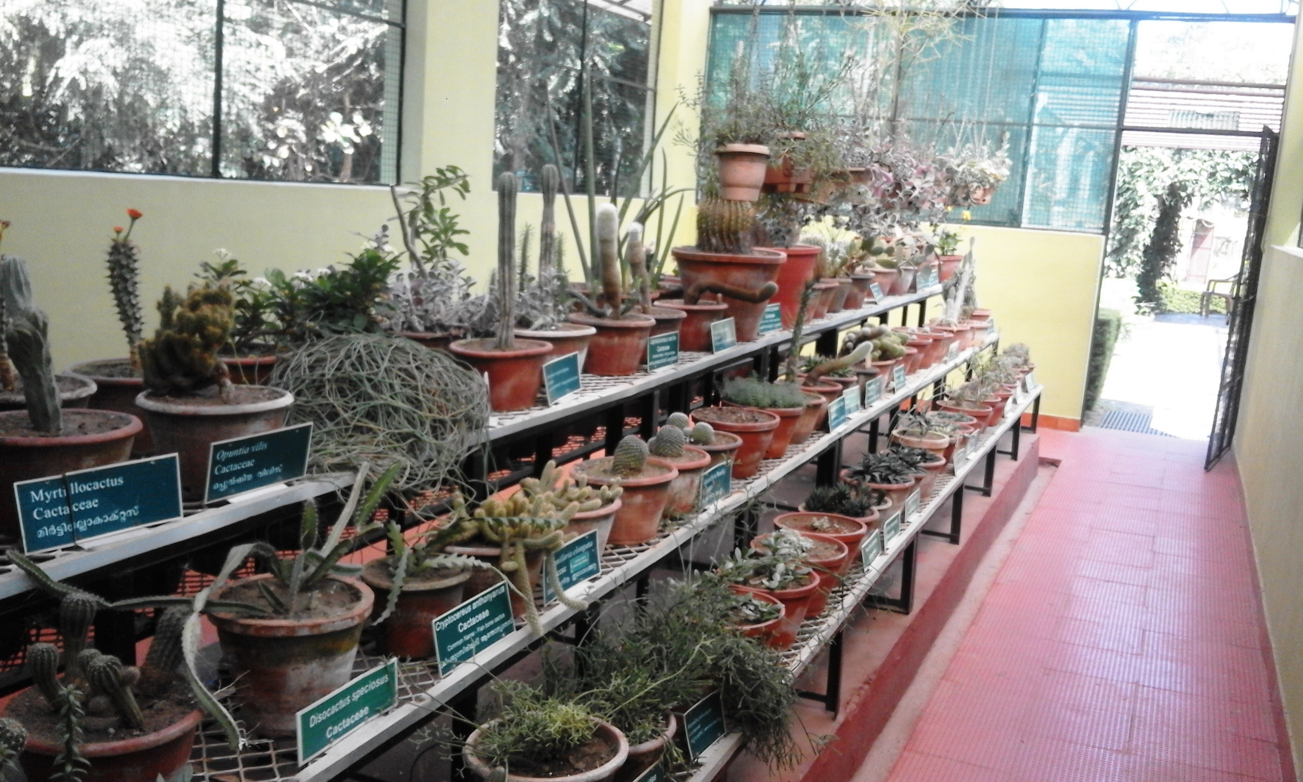 Nilambur, Kerala, India.